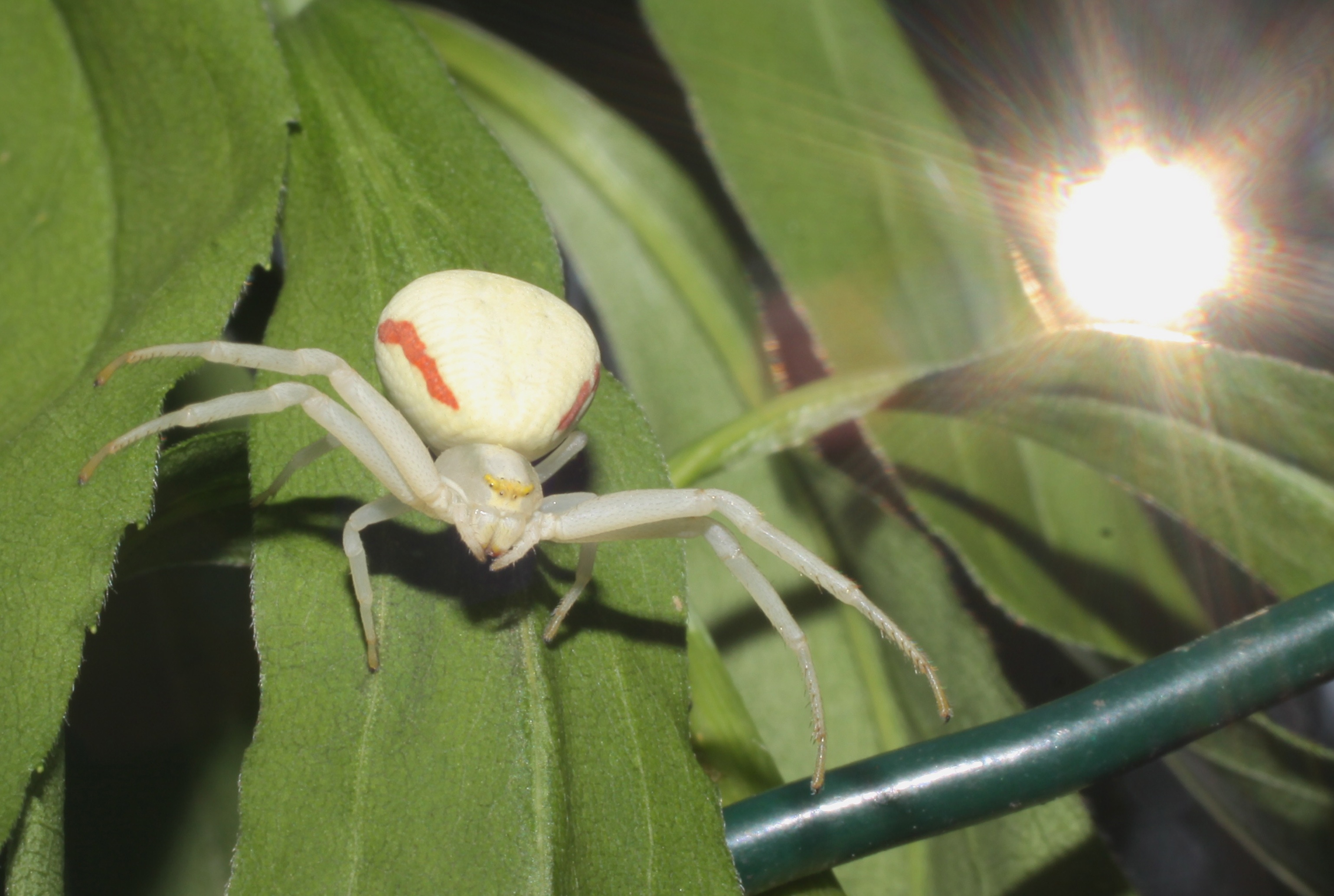 crab spider, photographed in a Belgian garden